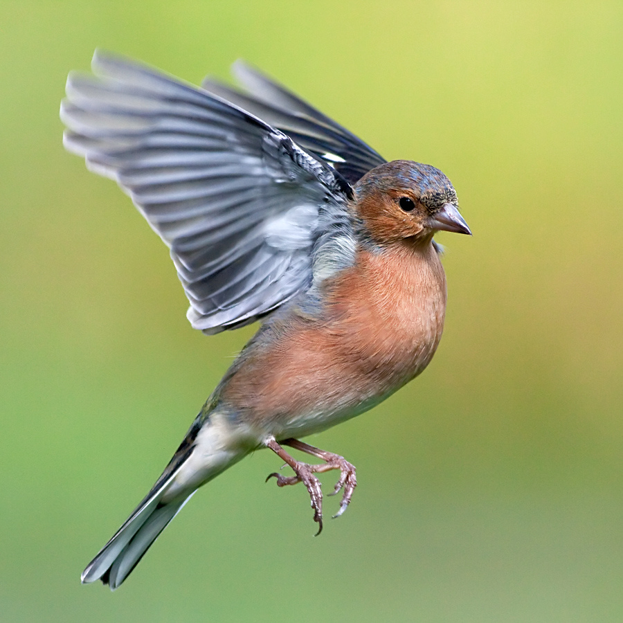 A Chaffinch flying in Lochwinnoch, Renfrewshire, Scotland.